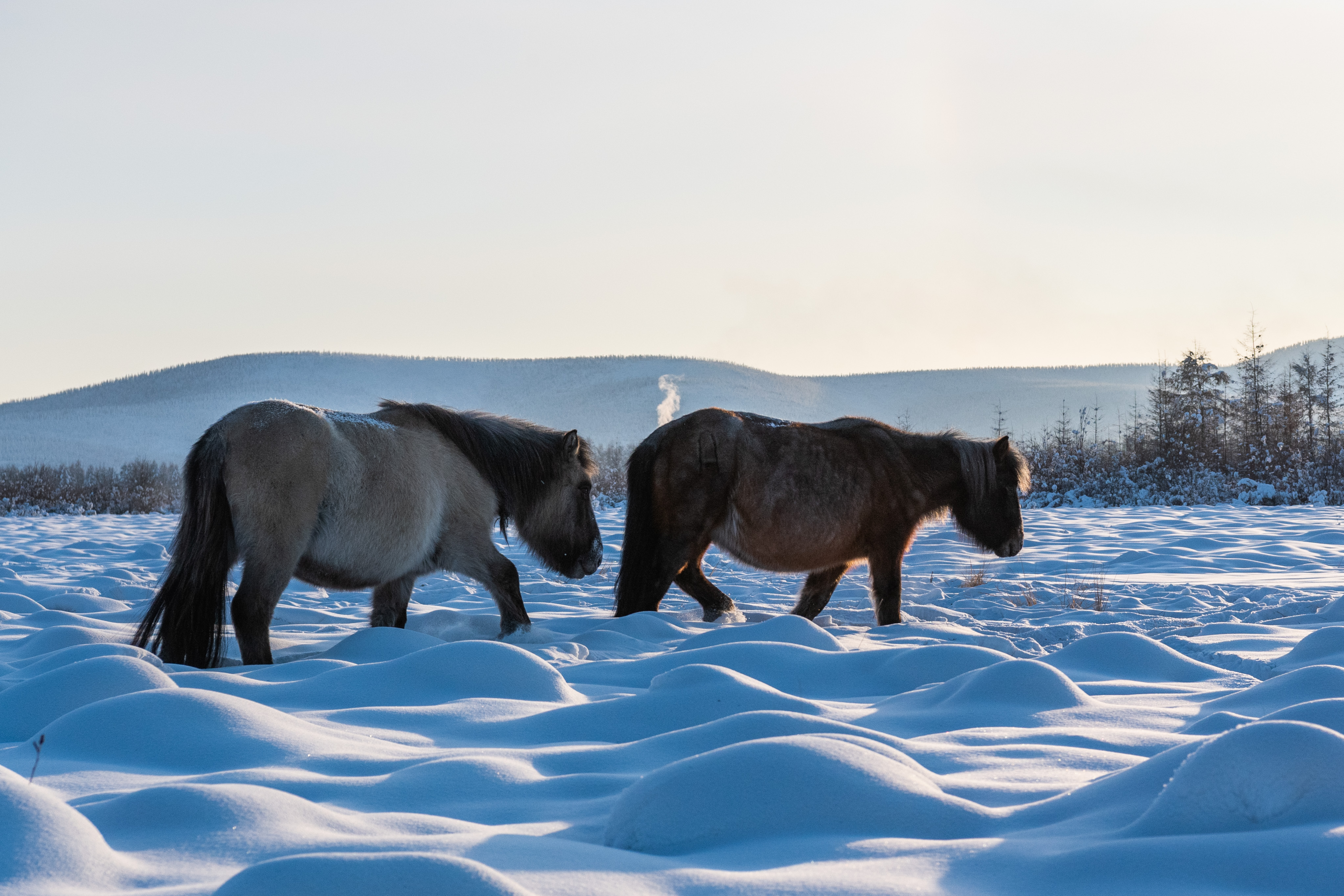 Oymyakon, Sakha Republic, Russia